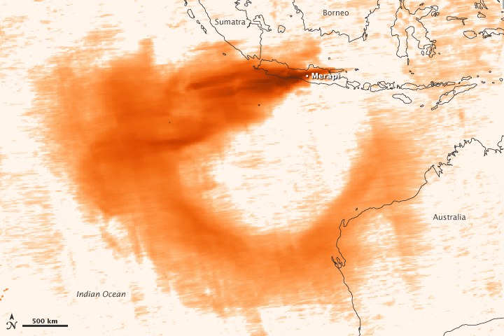 Eruption at Mount Merapi, Indonesia, Sulfur dioxide cloud (dobson units) over the Indian ocean on 4 November 2010. Concentrations of sulfur dioxide on November 4–8, 2010, as observed by the Ozone Monitoring Instrument (OMI) on NASA's Aura spacecraft